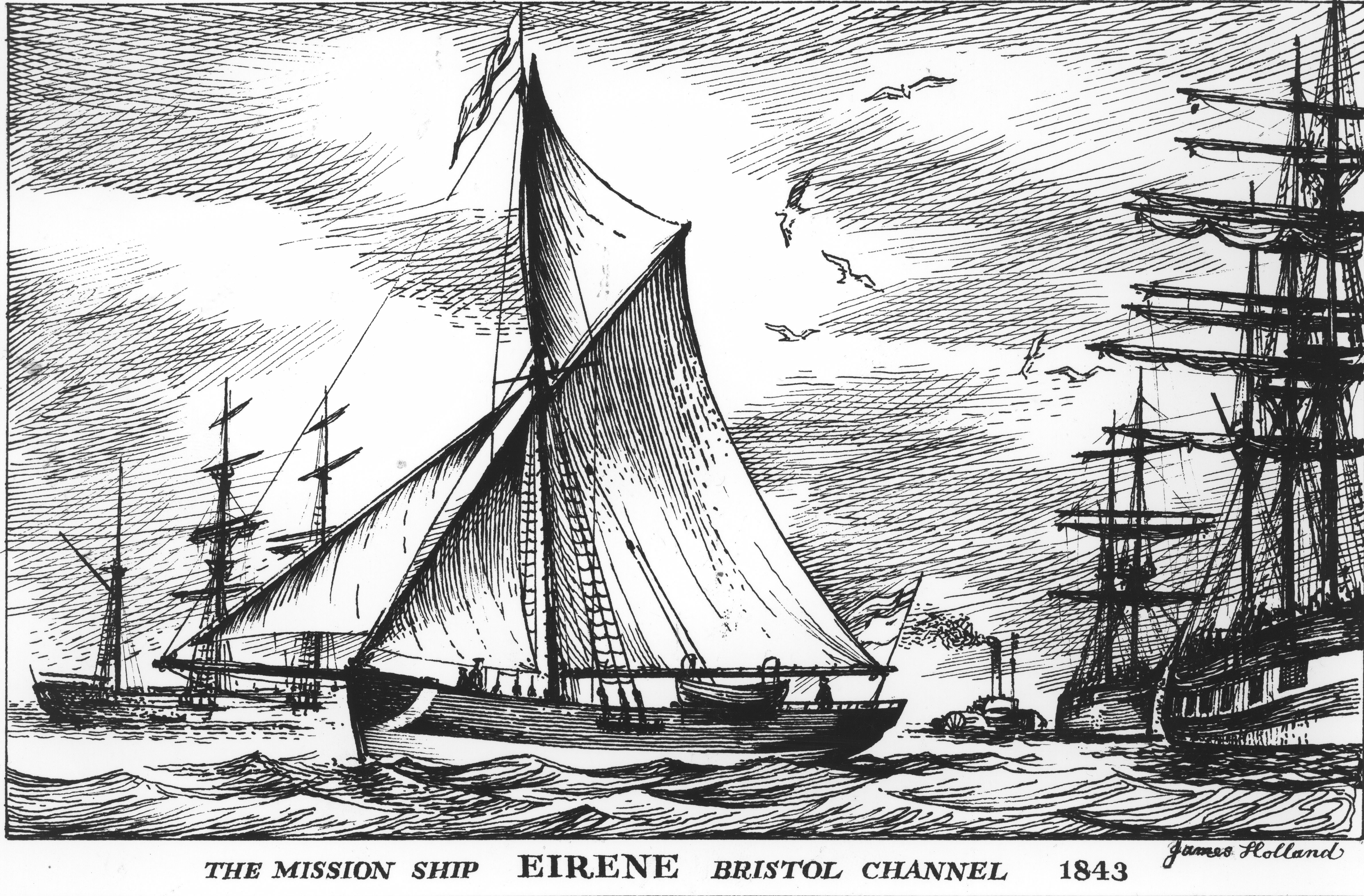 Floating seafarers ship teh Eirene